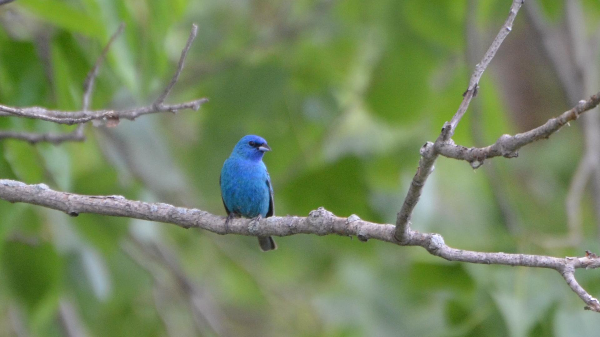 Columbia Bottom Conservation Area 6/1/13 - the road from the boardwalk to the point was completely under water, but we were still able to drive from the entrance area, the gravel road and the road back to the entrance, visiting many of our favorite summer guests - Grasshopper Sparrows, Orioles, Dickcissels, Prothonotary Wablers and more